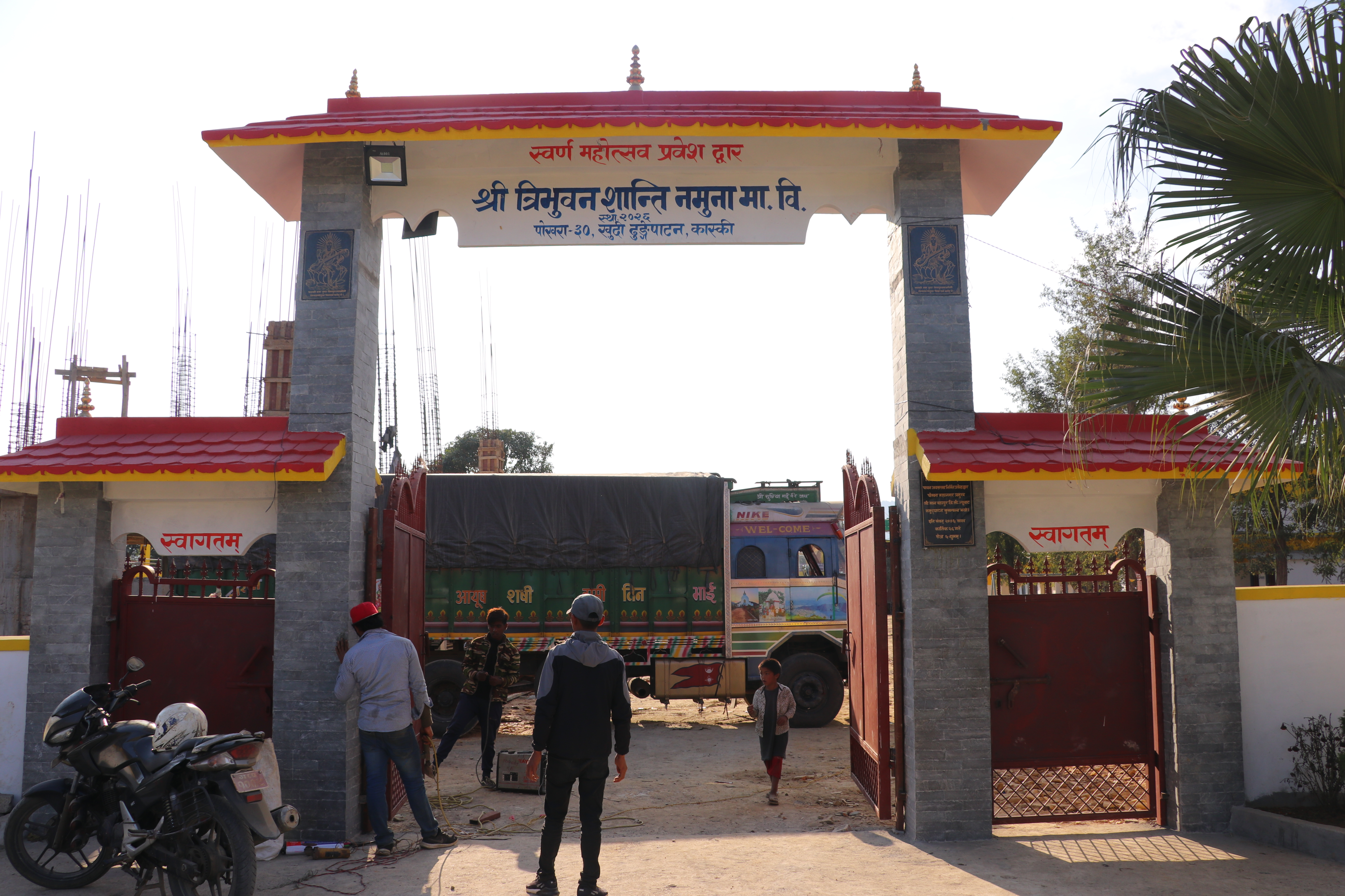 School entrance gate is newly constructed as school celebrated golden jubilee